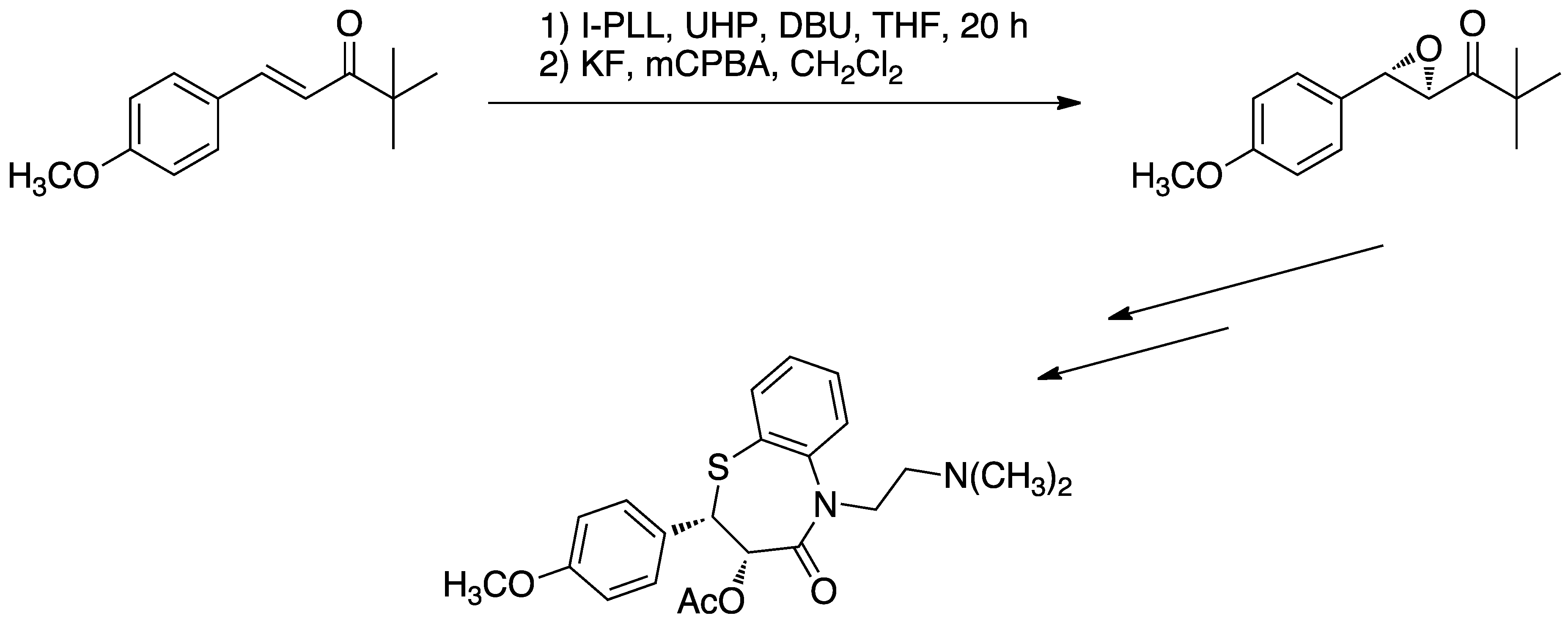 The Juliá-Colonna Epoxidation has been applied to the Total Synthesis of Diltiazem™. From Adger, B. M.; Barkley, J. V.; Bergeron, S.; Cappi, M. W.; Flowerdew, B. E.; Jackson, M. P.; McCague, R.; Nugent, T. C.; Roberts, S. M., Improved procedure for Julia-Colonna asymmetric epoxidation of α,β-unsaturated ketones: total synthesis of diltiazem and Taxol (TM) side-chain. J. Chem. Soc.-Perkin Trans. 1 1997, (23), 3501-3507.